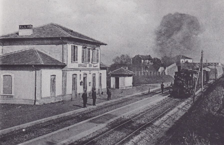 Serravalle Sesia, railway station, 1911